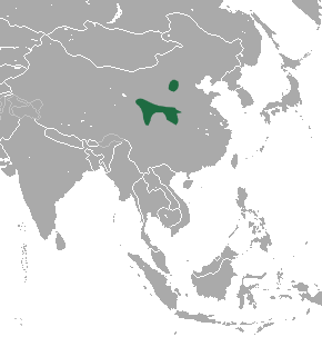 Tsing-ling Pika (Ochotona huangensis) range